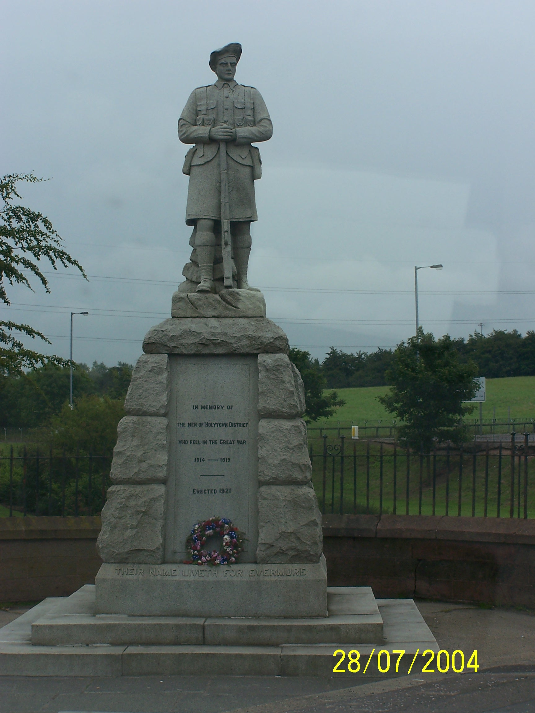 The War Memorial statue for those from the small town of Holytown (Scotland) who died in World War One. Rest in peace. The statue is made of granite, and is 16ft x 8ft x 8ft (height by width by depth), and is of a life sized kilted soldier bearing full uniform, on a tapering plinth stepped base. Further details can be found on the dedicated Imperial War Museum website page for the memorial. The statue was built by Mr Scott & Rae (Sculptors) and Mr James Paterson (Builder), and was unveiled by Mr Alexander Whitelaw on 9th October 1921 with a dedication given by Rev JD Dykes. Cost of the memorial was £1160 which was funded by a combination of public, private and corporate donations.